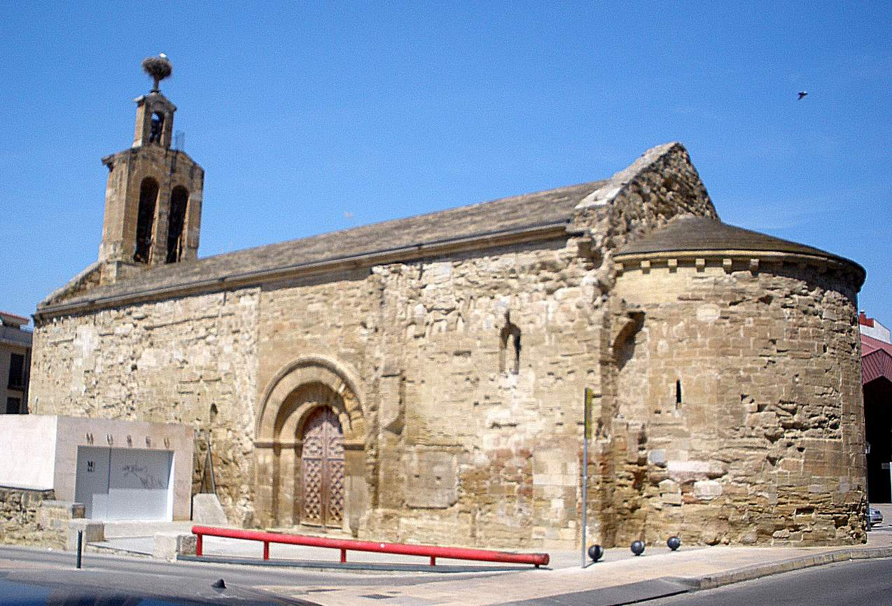 Iglesia de San Martín, Lleida